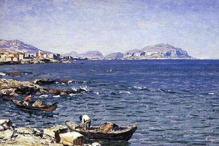 View of Palermo. 1917. Etude (painting). 26.4 x 36 cm. Private collection.